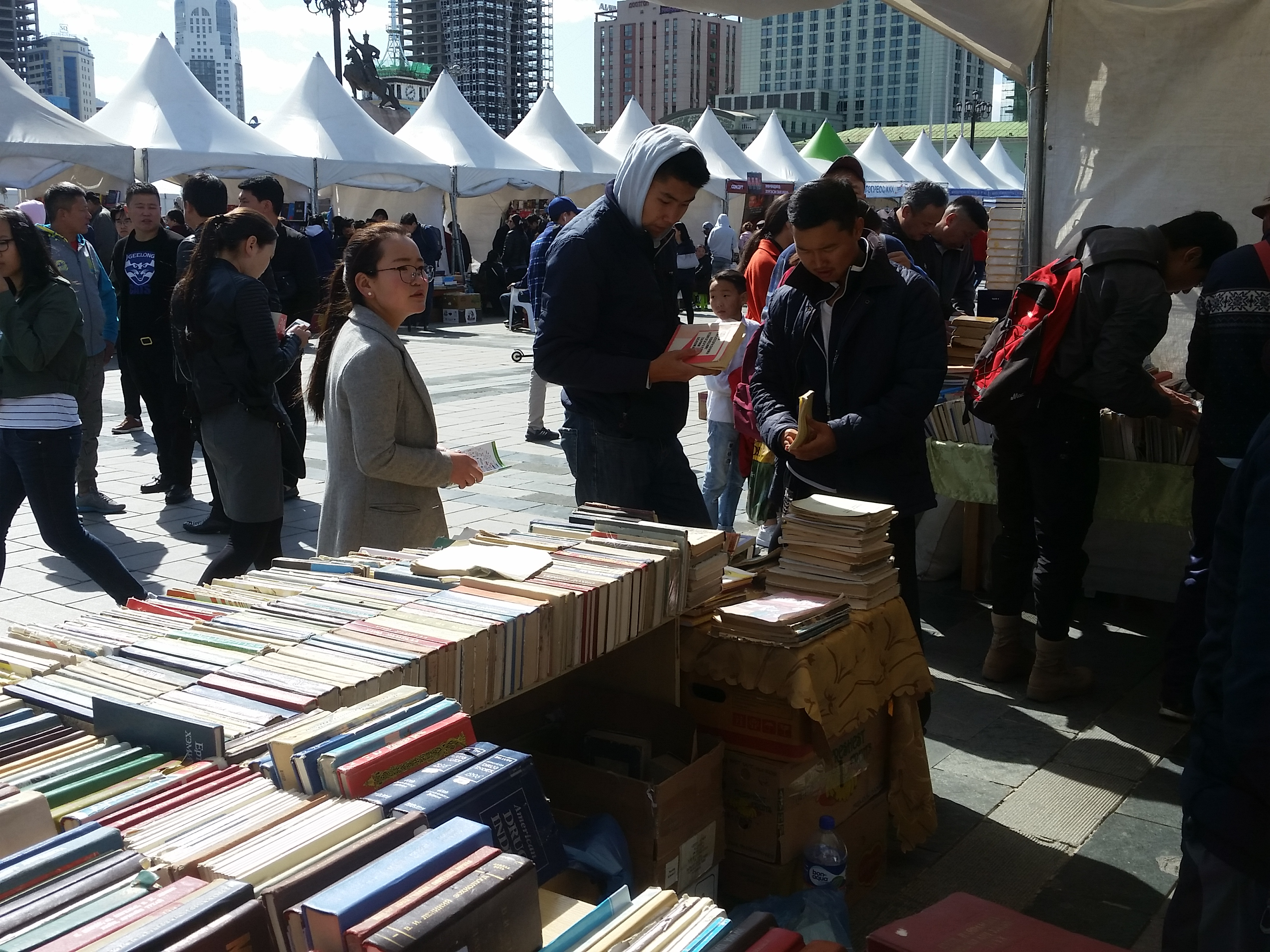 Ulaanbaatar book fair 2019 - 4